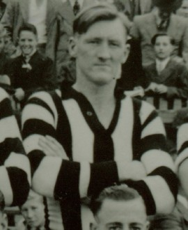 Photograph of Harry Lambert from 1944-1945